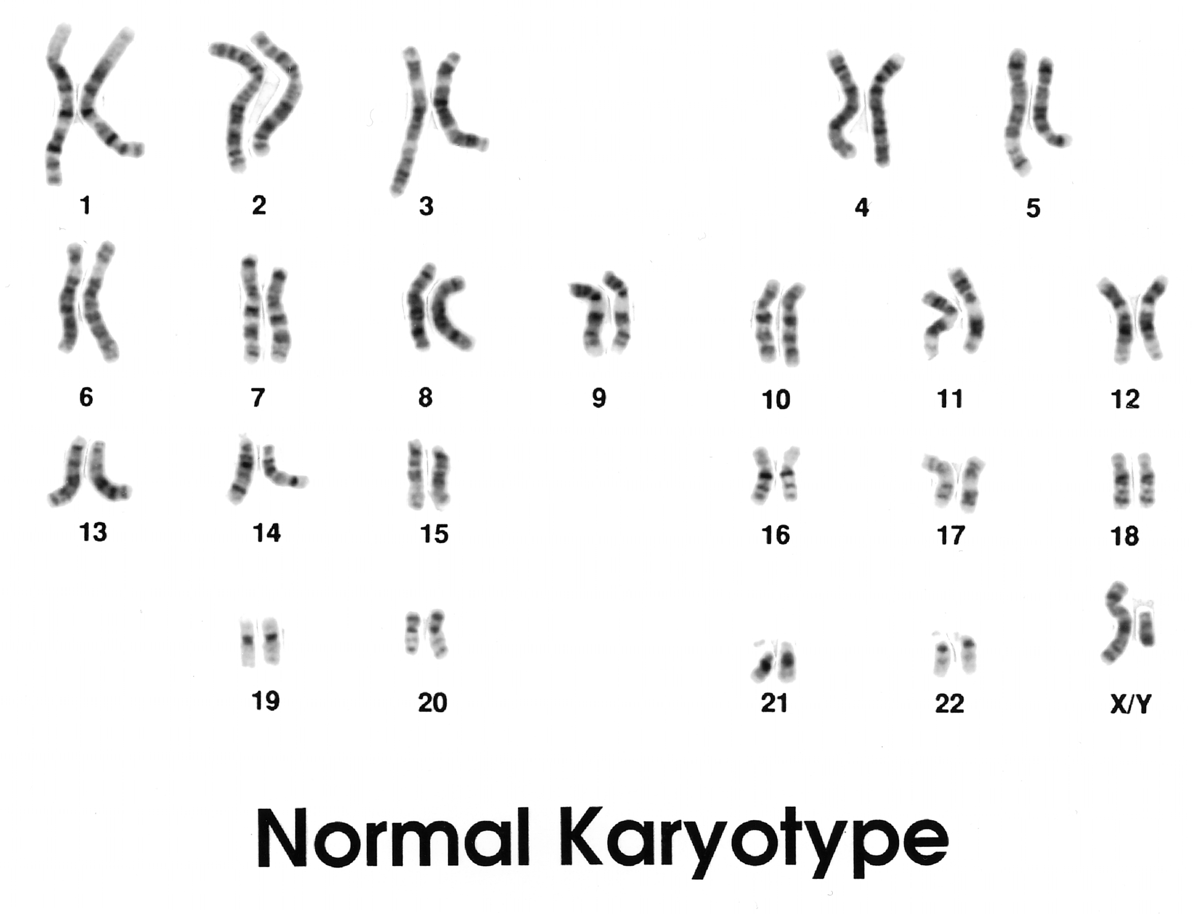 Title Karyotype (Normal) Description A normal male karyotype, it contains 22 pairs of autosomal chromosomes and one pair of sex chromosomes. Topics/Categories Test or Procedure -- Genetic Tests Type B&W, Photo Source National Cancer Institute